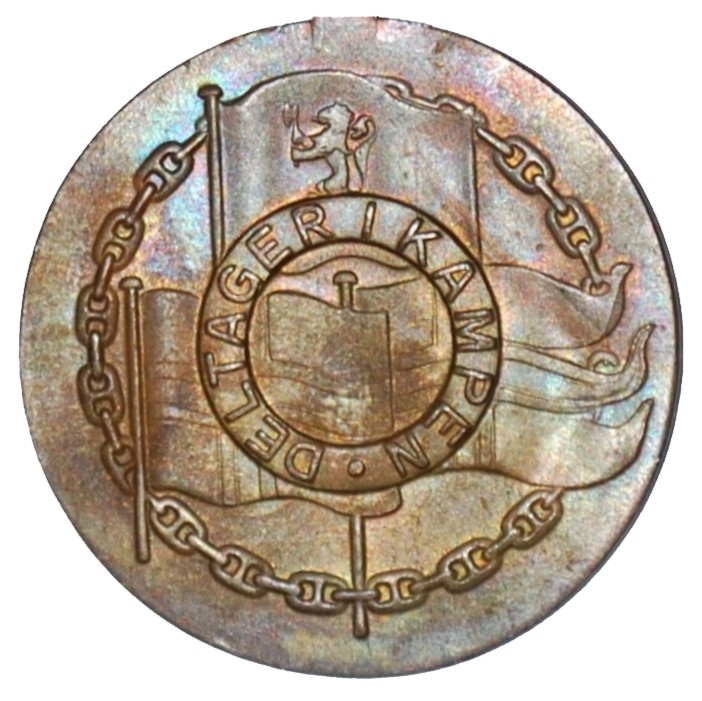 Reverse of Deltakermedaljen, Norwegian medal for participation in the defence of Norway 1940–1945. English name: Defence Medal 1940–1945. Back side shows Norway's national flag, war ensign and royal standard.